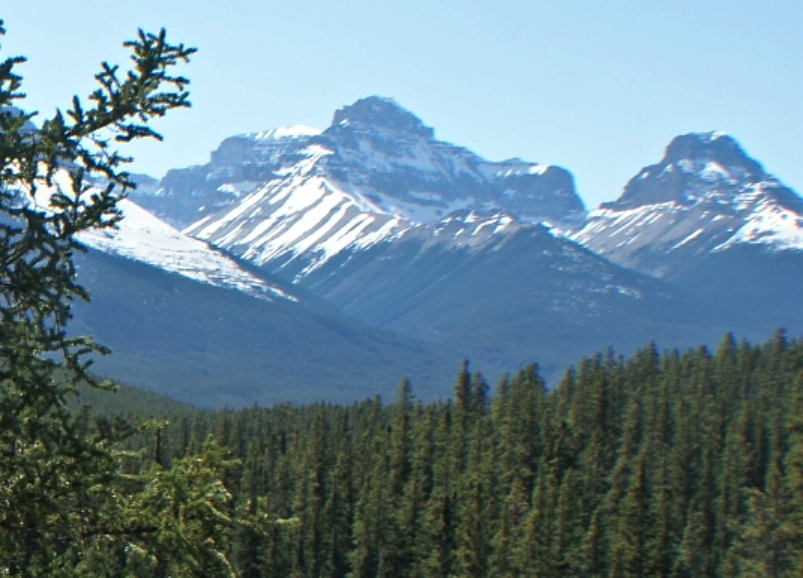 Mount Erasmus seen from Icefields Parkway. Banff Park, Canada